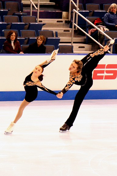 Maria Mukhortova and Maxim Trankov perform a pair spiral at the 2006 Skate America.